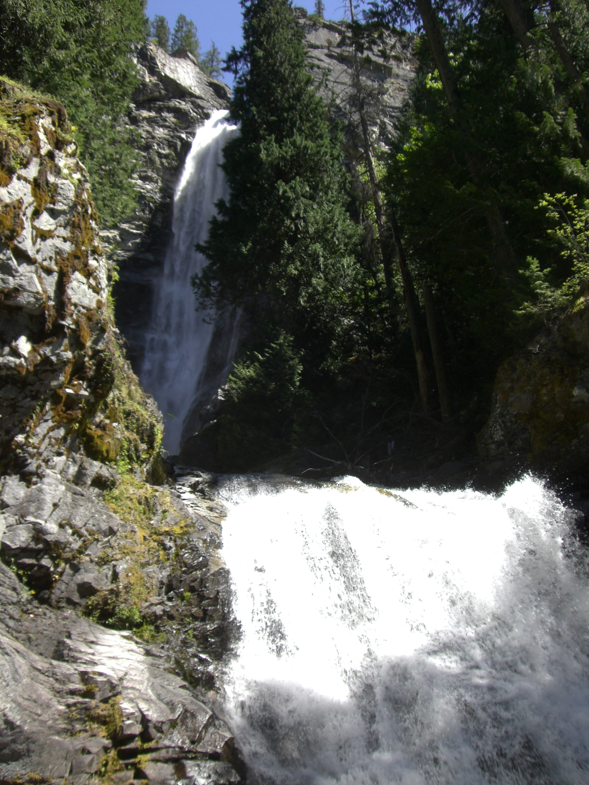 Rainbow Falls on Rainbow Creek next to the historic Buckner Homestead near Stehekin, Washington